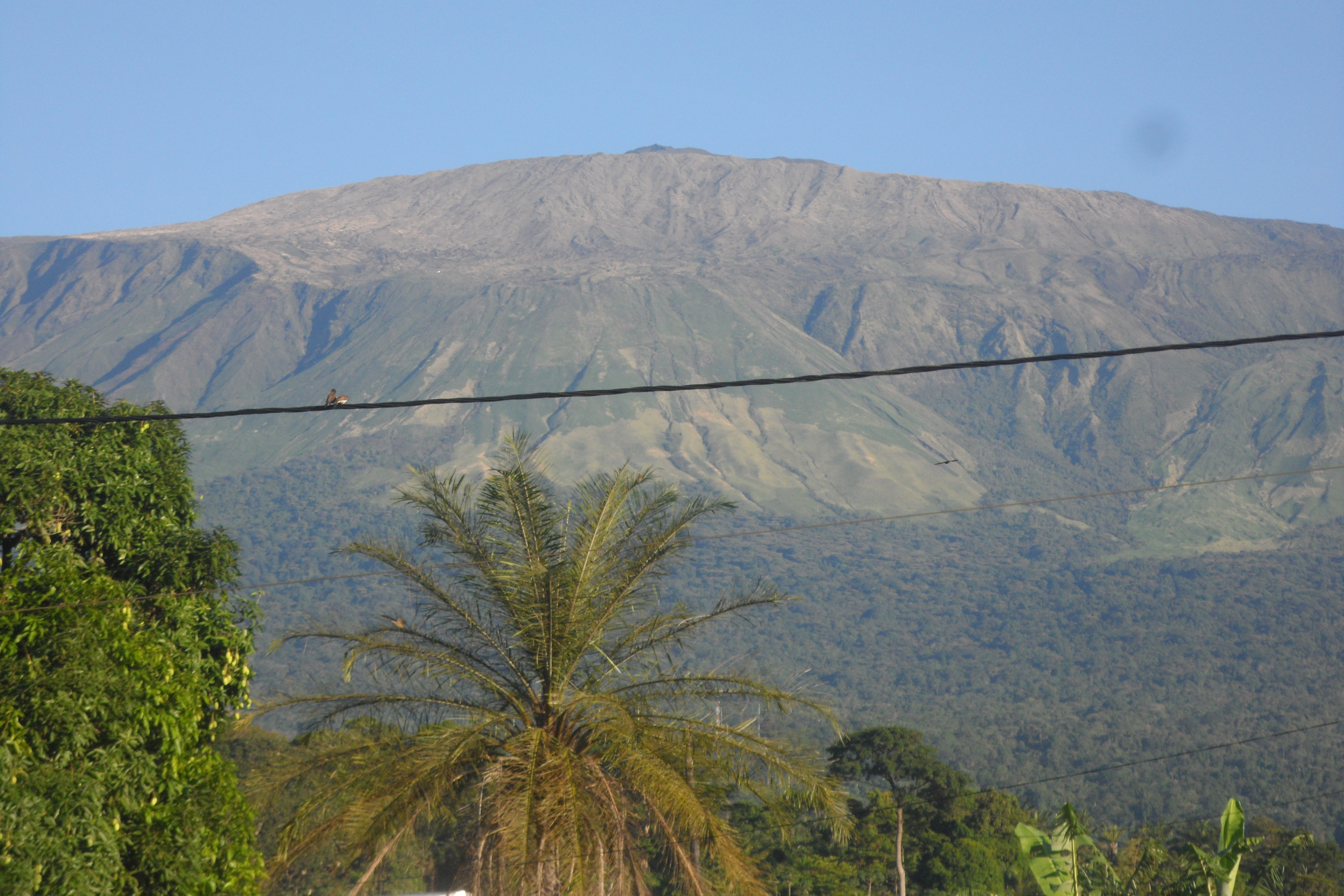 The pride of Cameroon